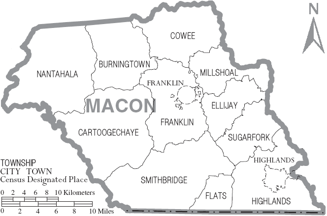 Map of Macon County, North Carolina, United States with township and municipal boundaries